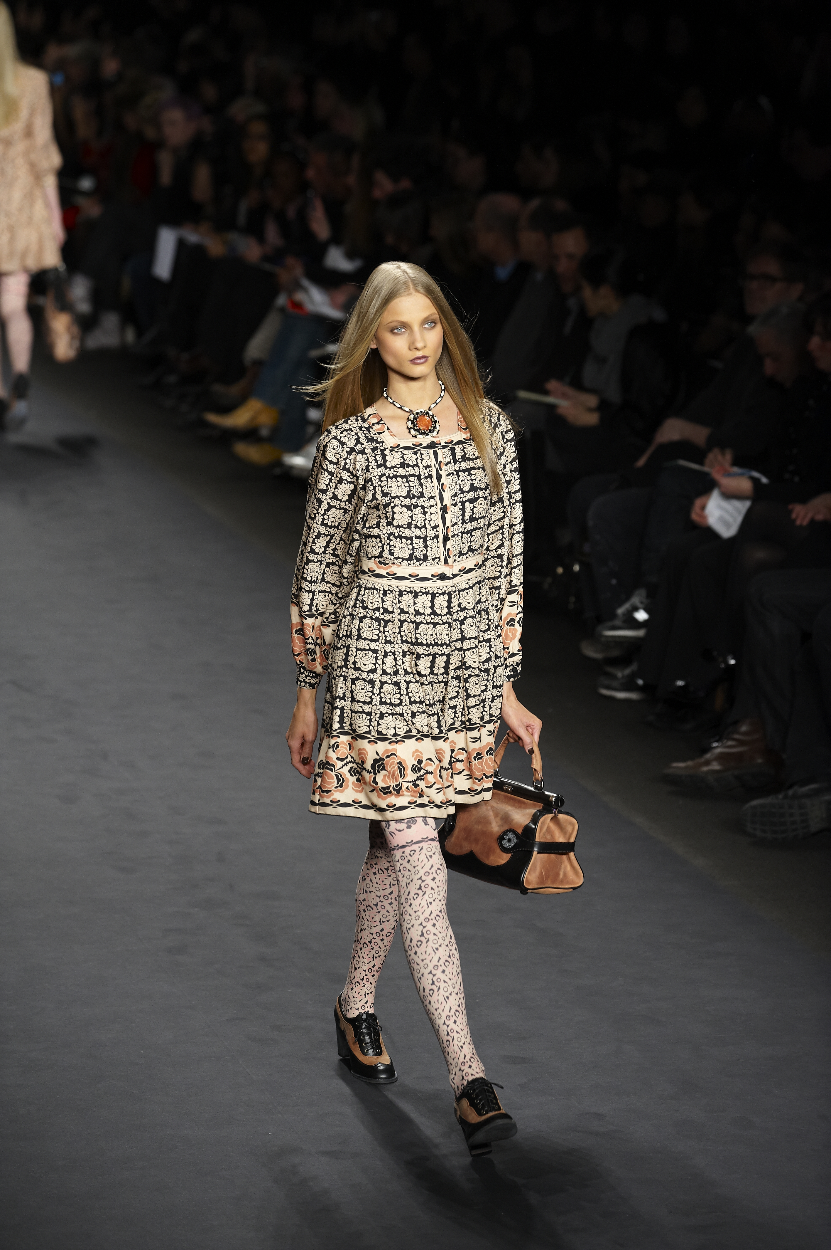 A model walks the runway at the Anna Sui Fall/Winter 2010 show at New York Fashion Week, February 2010.